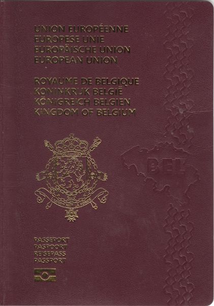 Image of cover of Belgian passport issued since 2008.